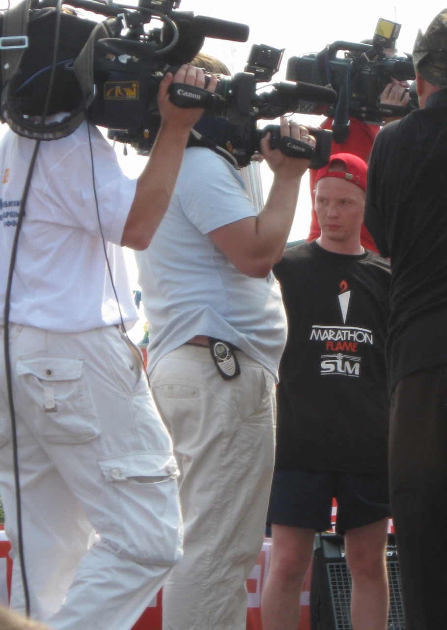 Aleksei Tishchenko got a promotion of Siberian International Marathon 2010, Omsk, Russia